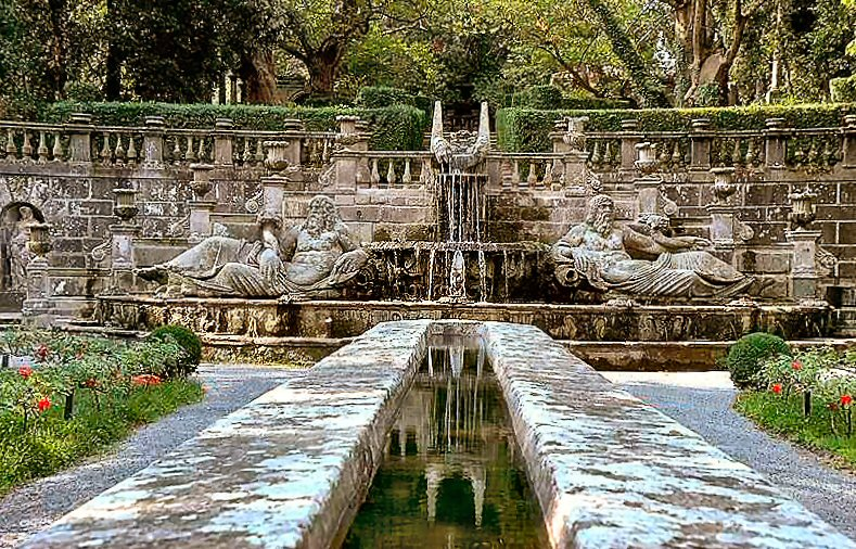 Villa Lante - part of the formal gardens